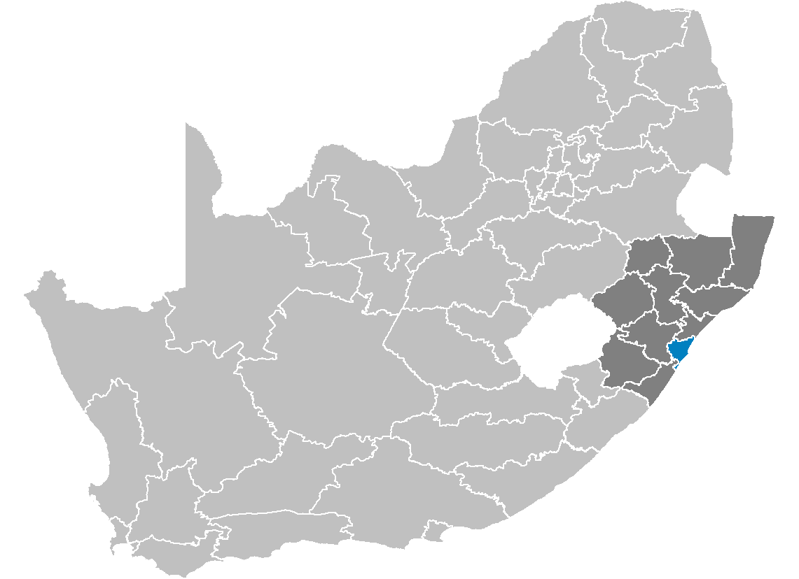 Map showing the eThekwini Metropolitan Municipality higlighted within KwaZulu-Natal.